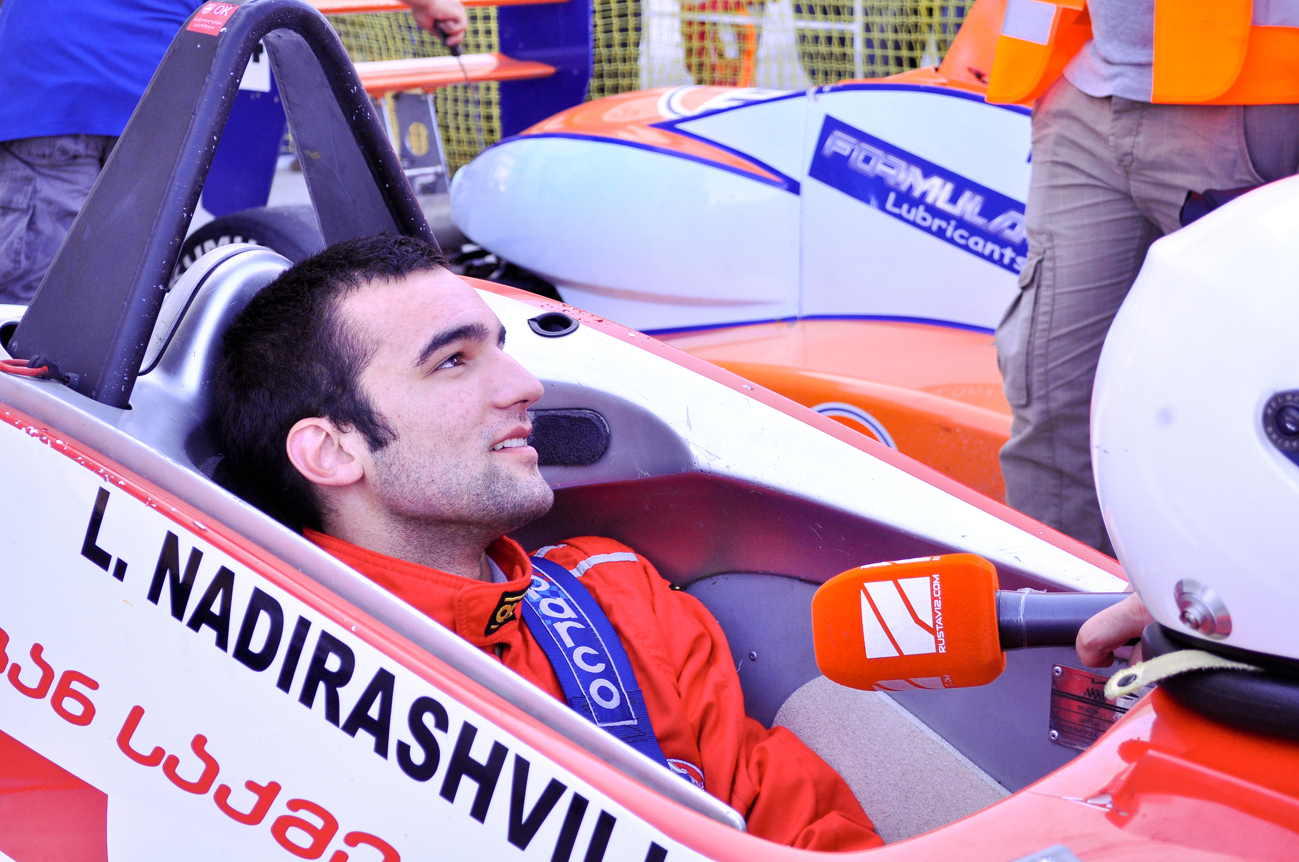 Formula Alfa driver Lasha Nadirashvili, team MIA Force